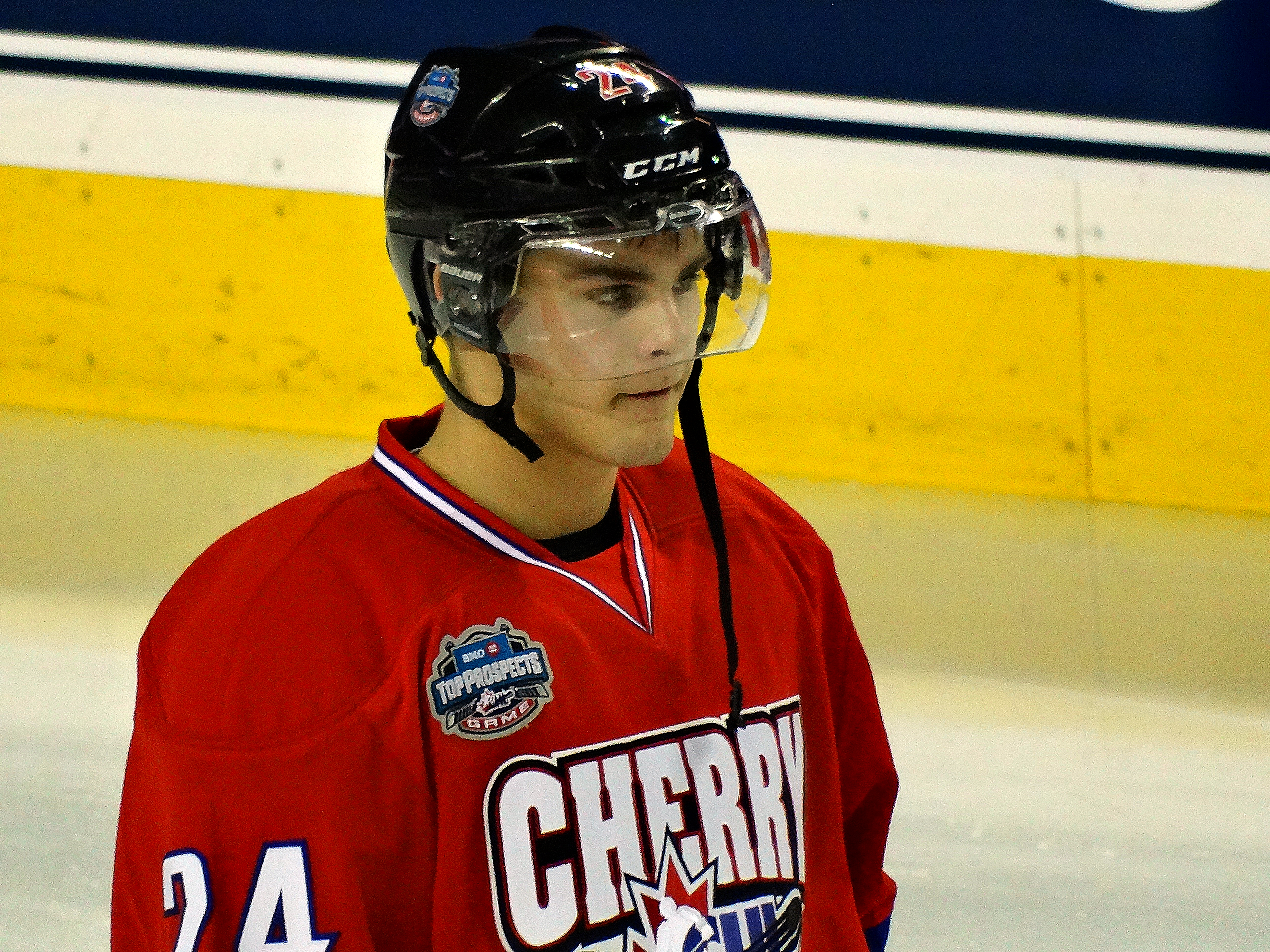 Aaron Irving, Canadian ice hockey defenseman at the CHL / NHL Top Prospects Game